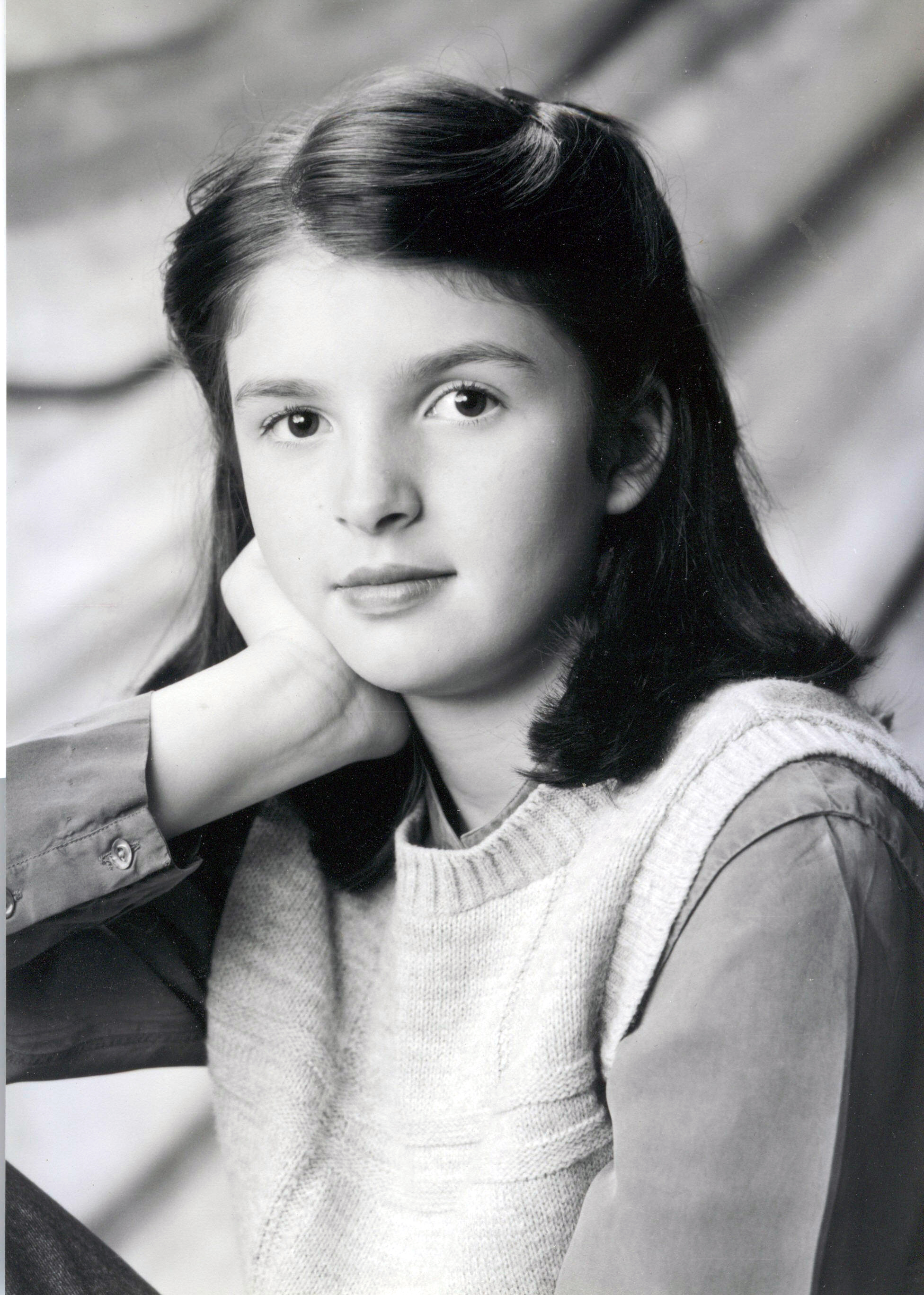 In 1998, at age 11, the year she published her experiment on Therapeutic Touch in JAMA.